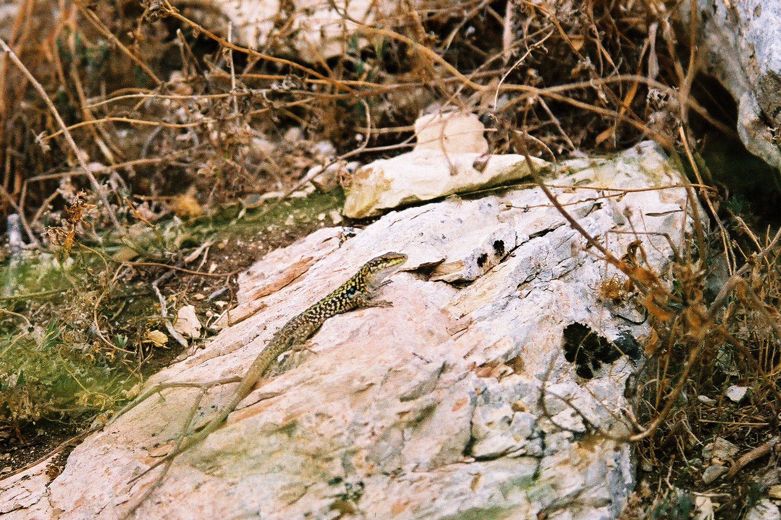 Lizard photographed on site of the ancient town of Segesta, Sicily